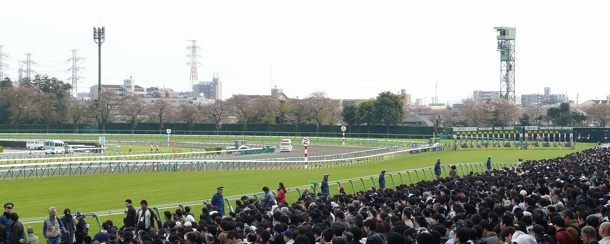 Nakayama-Racecourse03